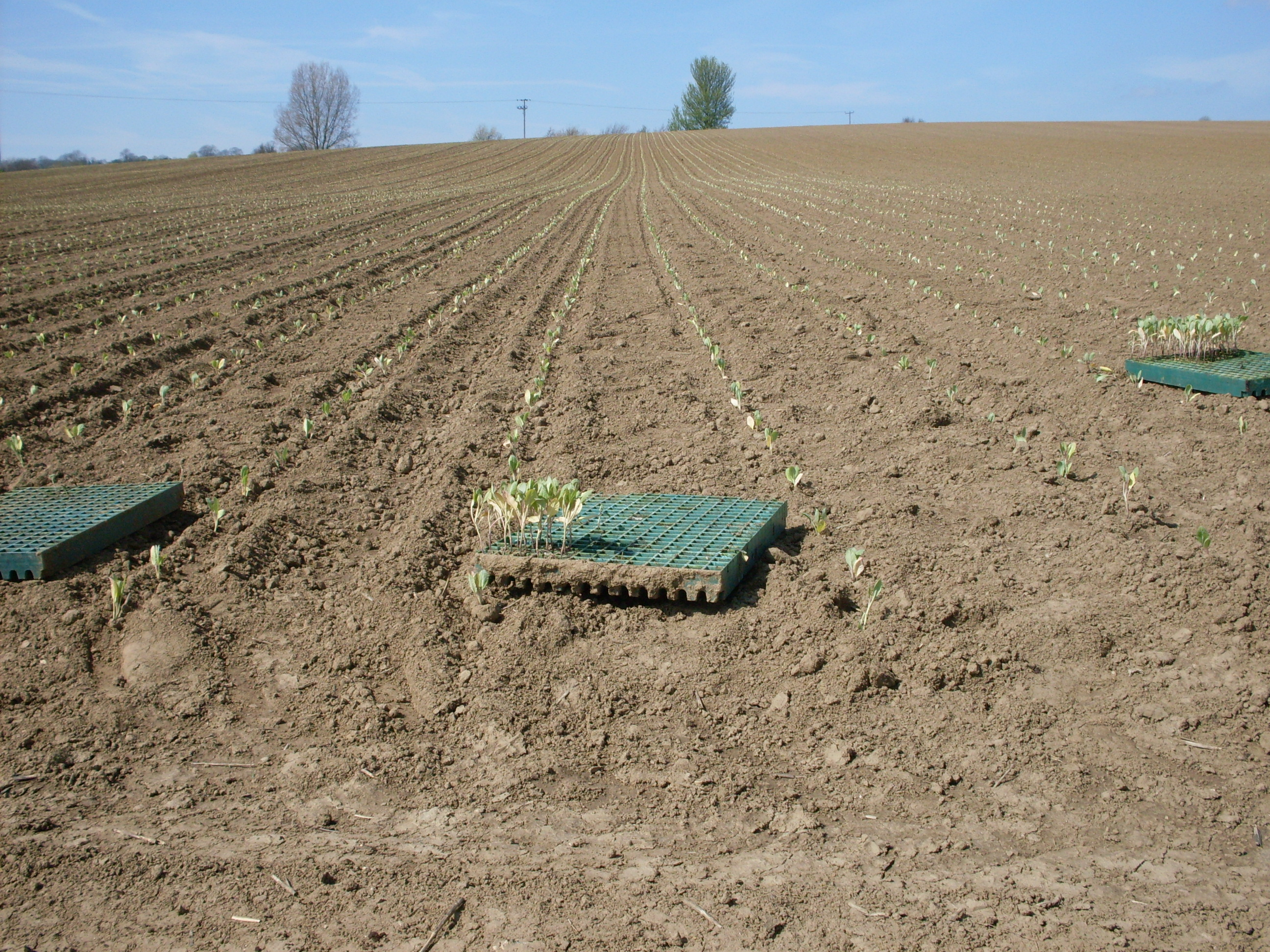 With the transplanter setted roor plants in a field near Chipping Campden, England.